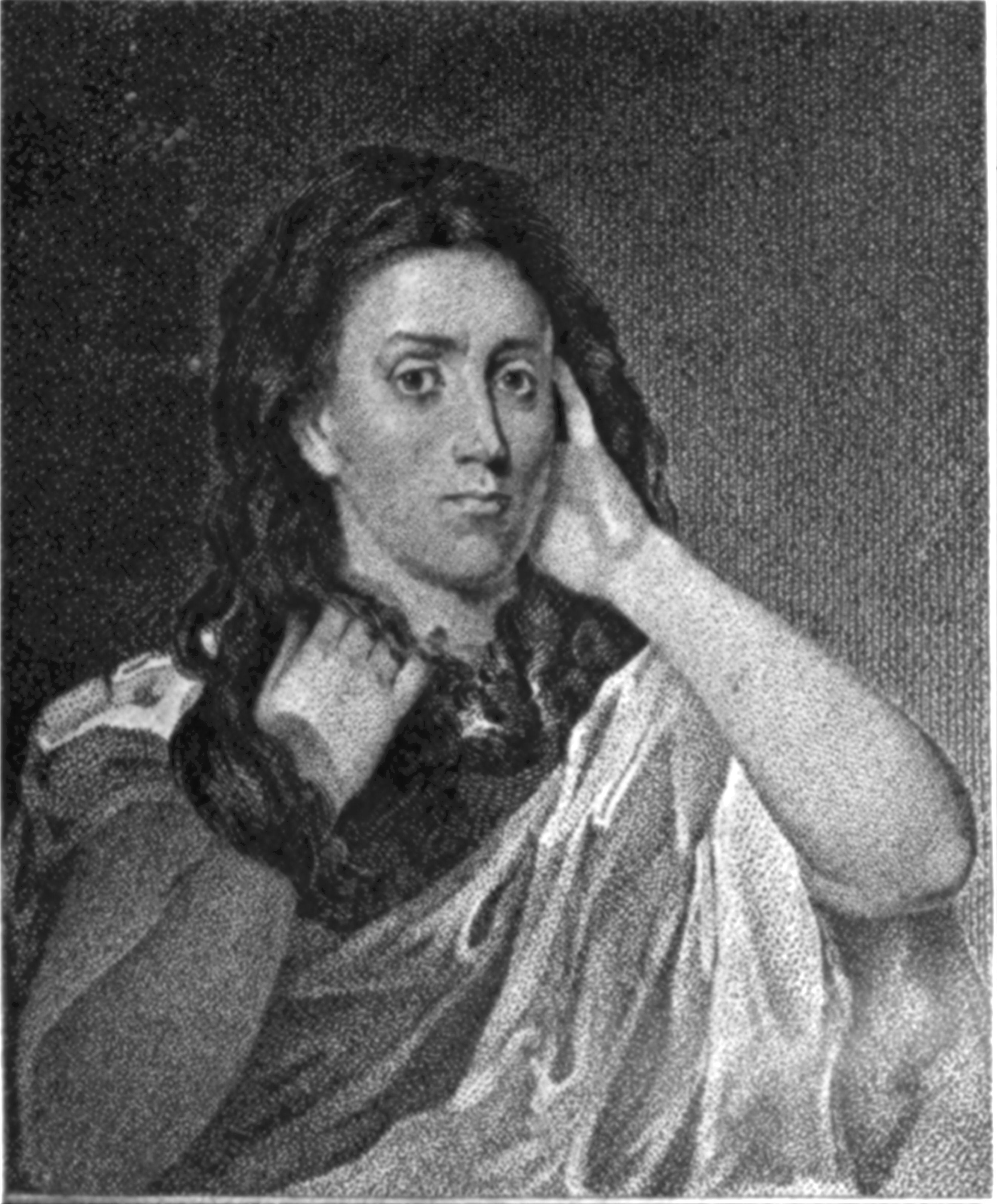 Mary Ann Duff, as Mary in Superstition (1824) by James Nelson Barker. Engraved by James Barton Longacre (1794–1869) from a painting by John Neagle (1813–1888)